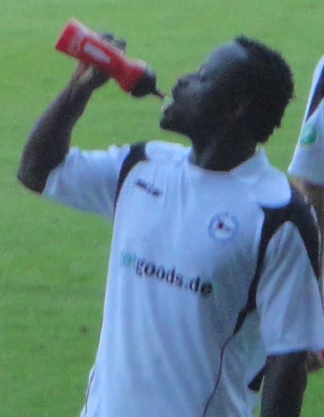 Eric Agyemang, football player, in 2011 in the dress of the german club Arminia Bielefeld.